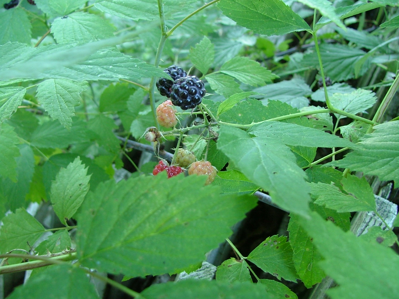 Black Raspberries in fruit, taken 24th July 2005 in Underhill, Vermont on a Fuji Finepix S5000 at 2 Megapixel native resolution.